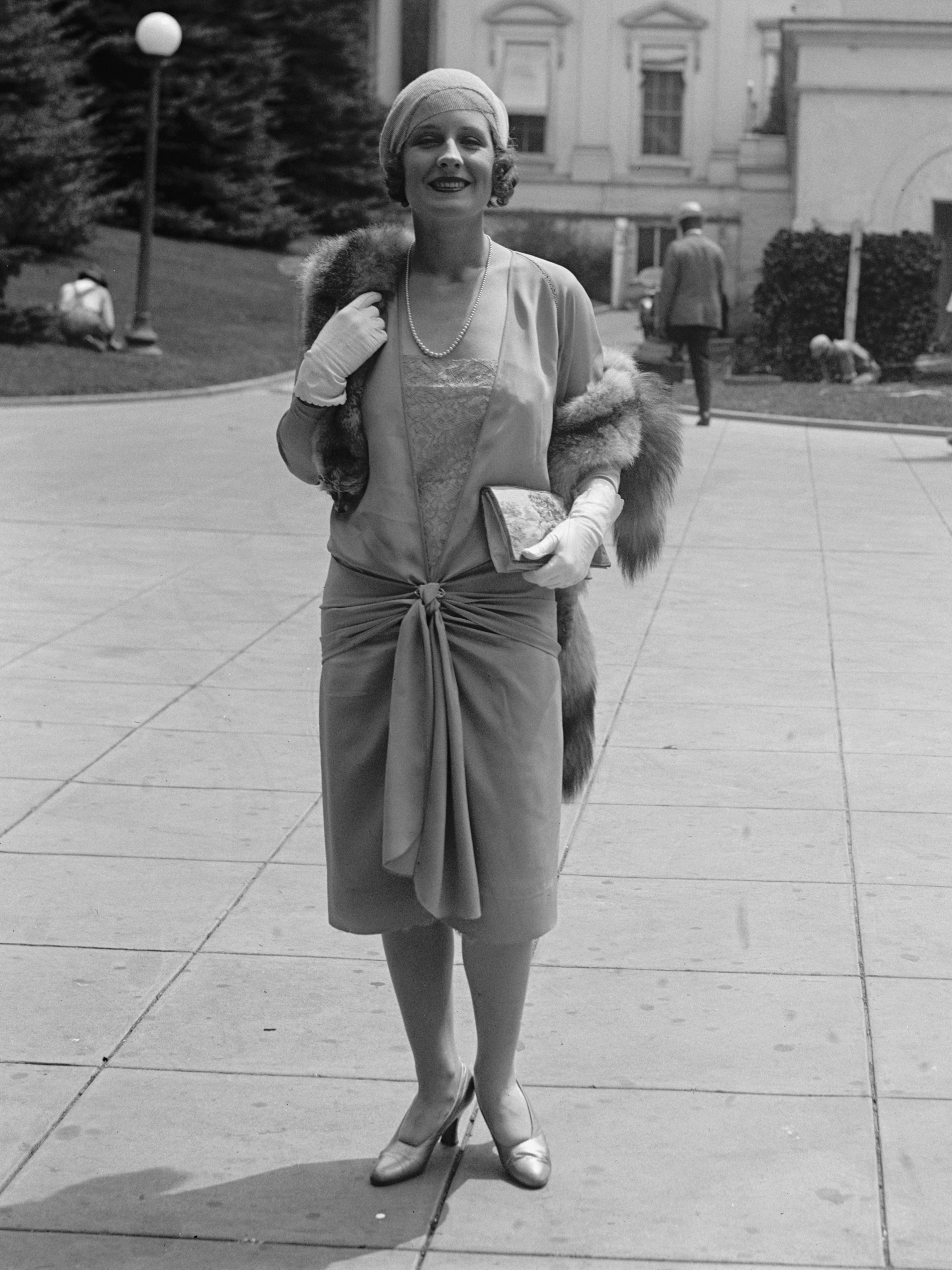 Norma Shearer (Mrs. Irving Thalberg), 7/24/29